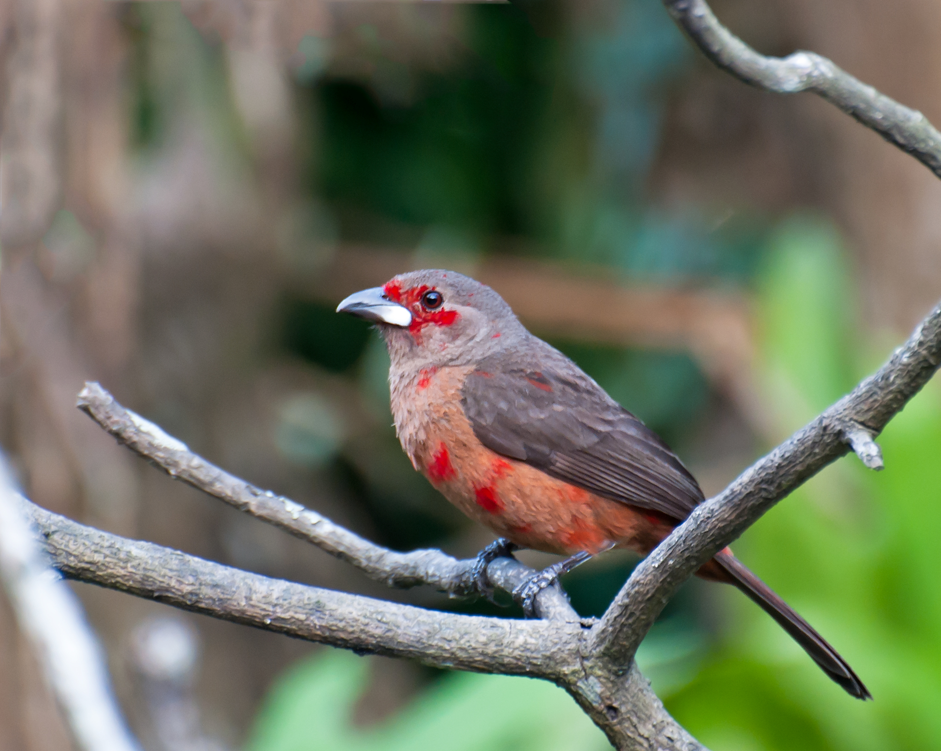 A juvenile male Brazilian Tanager in Vale do Ribeira, Registro, Sao Paolo, Brazil.